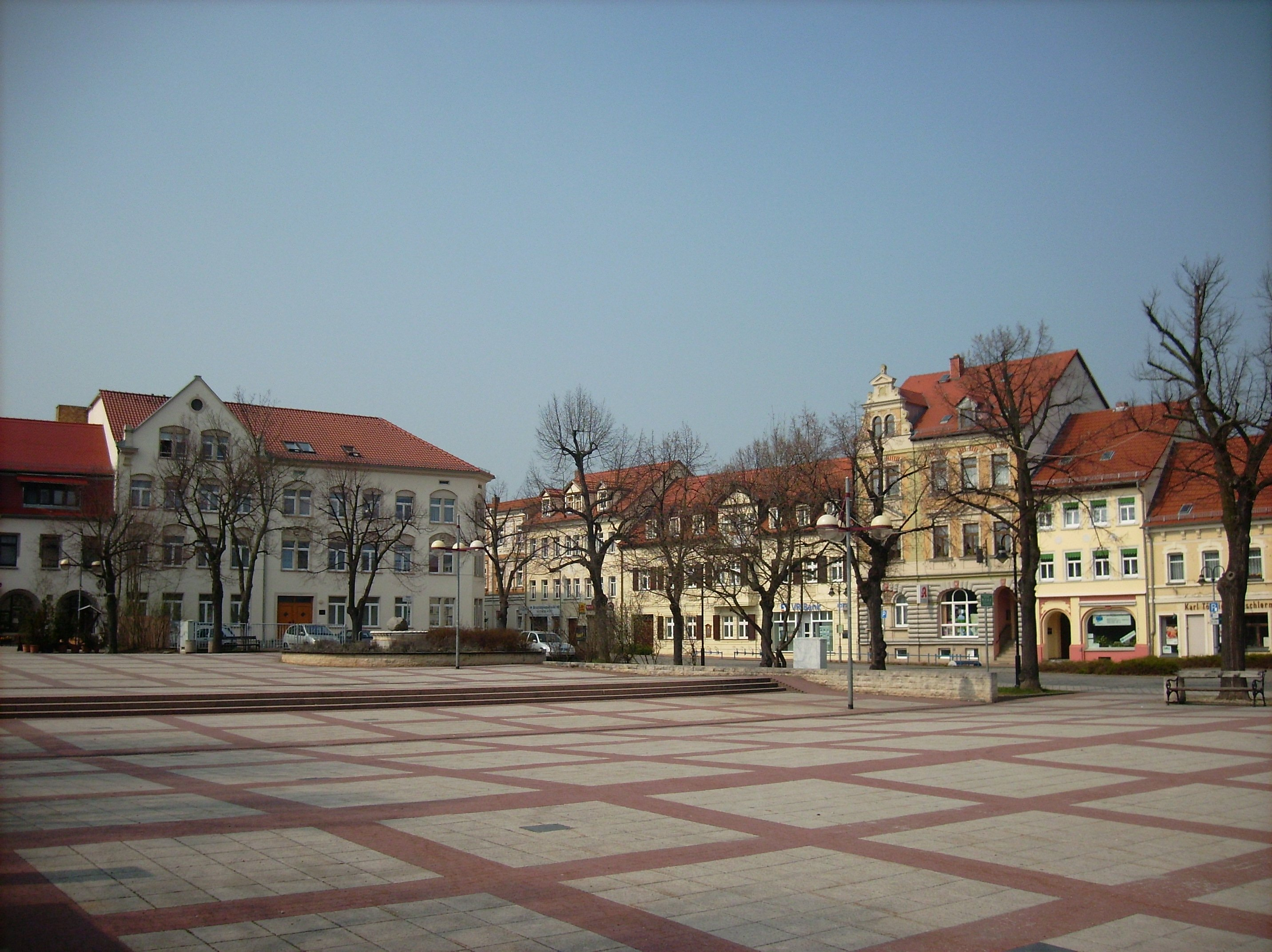 North-west side of the market square in Groitzsch (Leipzig district, Saxony)